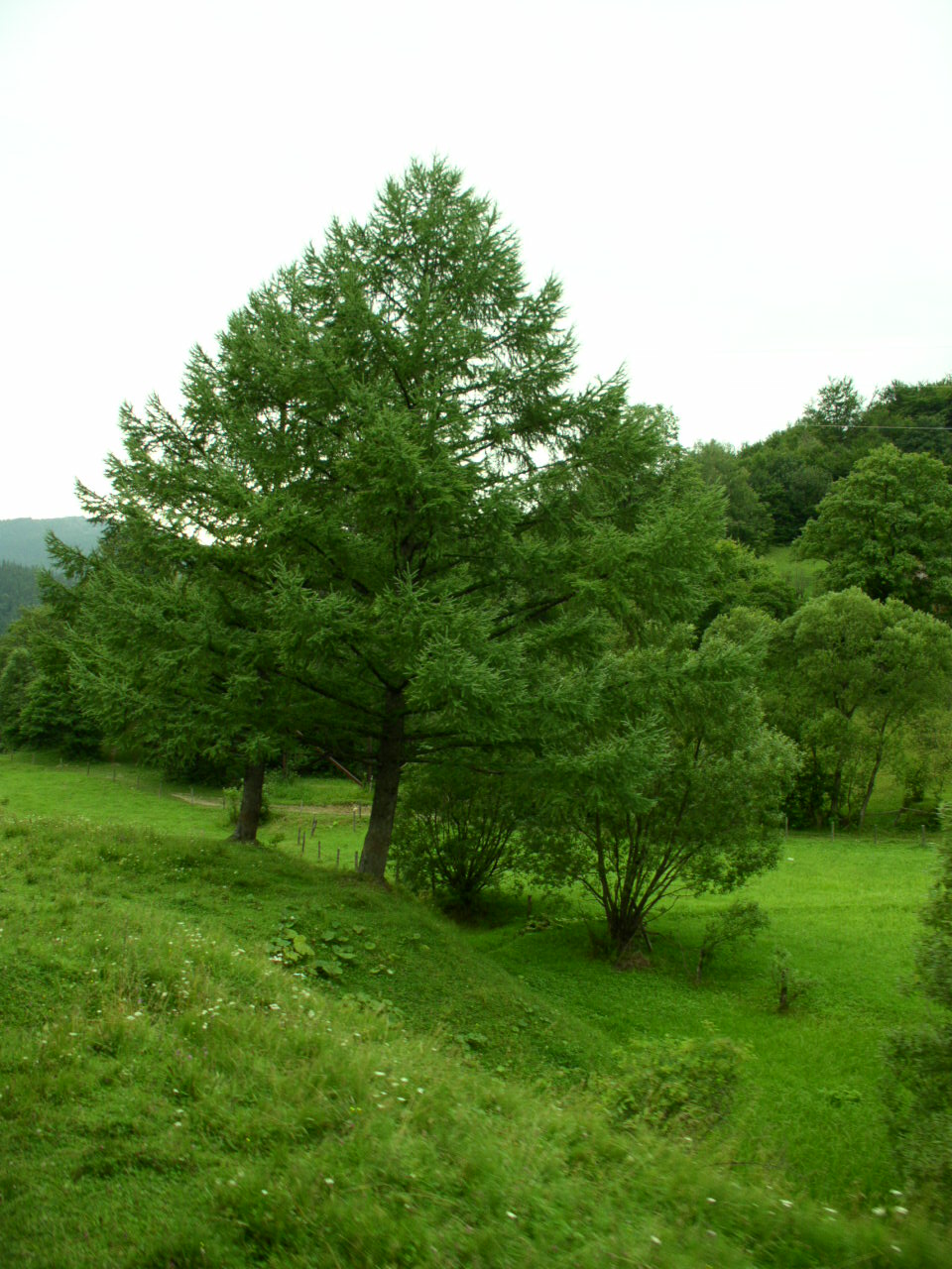 View from Yasinya-Ivano-Frankivsk railroad, Ukraine.